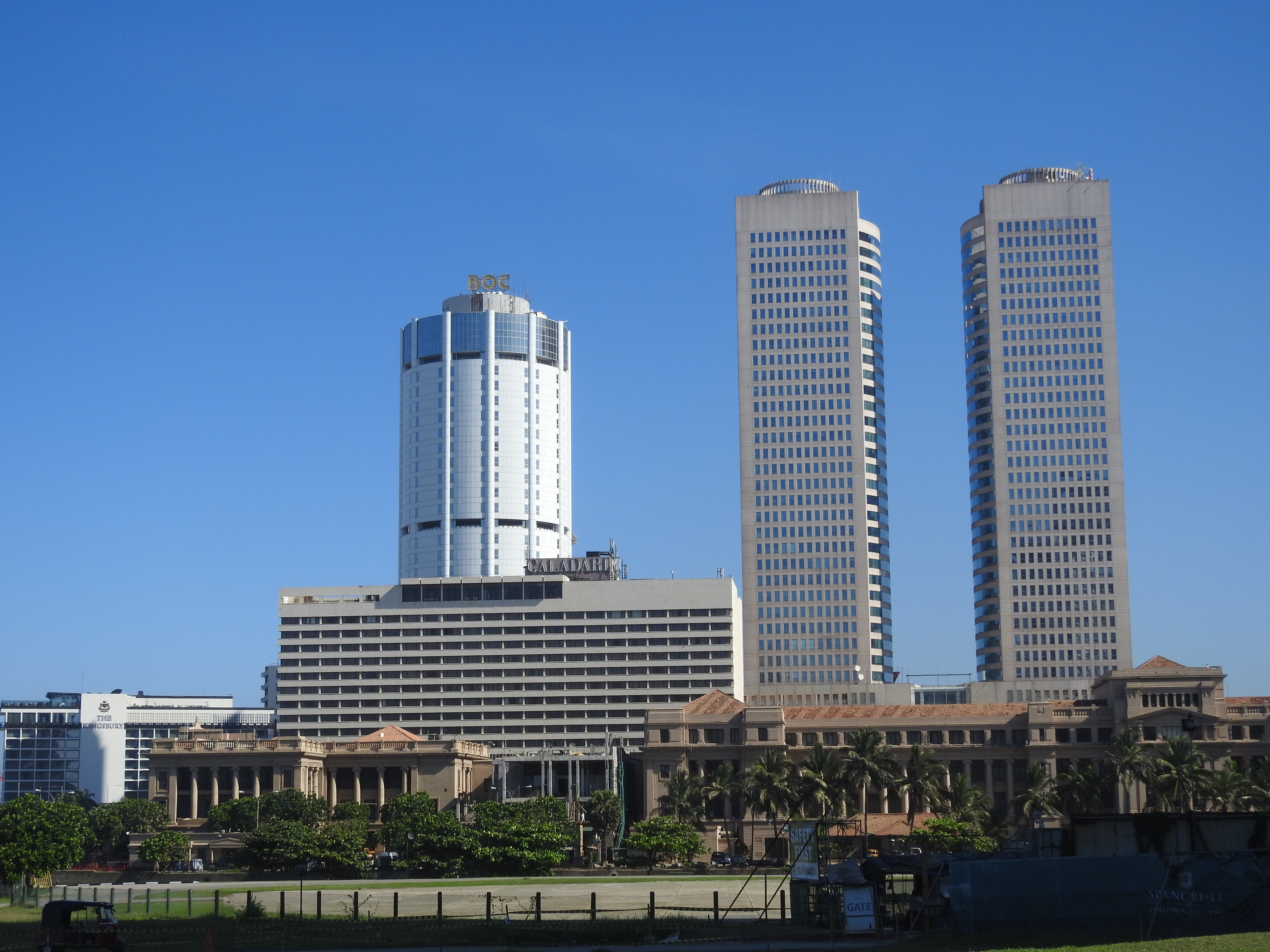 Photos of current/future skyscrapers (and its surroundings) in Colombo, taken by User:Rehman and User:Azeez as part of a photowalk project by Wikimedia Community User Group Sri Lanka. The photowalk covered most of the tallest structures in Colombo that are either completed or under construction. Further information on the subject(s) of the photograph can be found in the category/ies of this file.